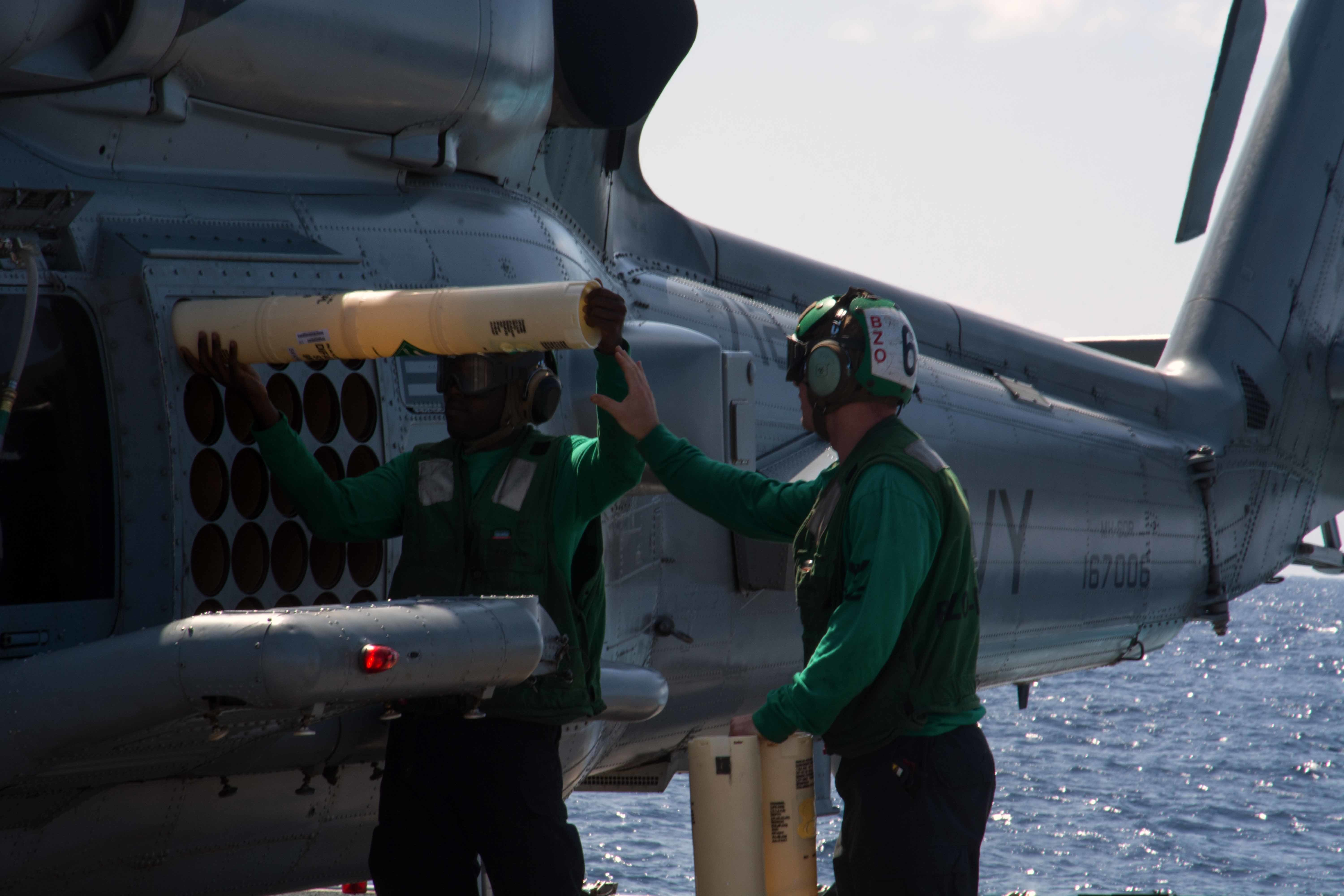 160919-N-CL027-186 INDIAN OCEAN (Sept. 19, 2016) Aviation Machinist’s Mate 2nd Class Jahod Ross, from Irvington, N.J., and Aviation Electrician’s Mate 2nd Class Adam Page, from Anacortes, Wash., unload sonobuoys from an MH-60R Sea Hawk of the Swamp Foxes of Helicopter Maritime Strike Squadron (HSM) 74 on the flight deck of the guided-missile destroyer USS Mason (DDG 87). Mason, deployed as part of the Eisenhower Carrier Strike Group, is supporting maritime security operations and theater security cooperation efforts in the U.S. 5th Fleet area of operations. (U.S. Navy photo by Mass Communication Specialist 3rd Class Janweb B. Lagazo) Unit: USS MASON (DDG 87)